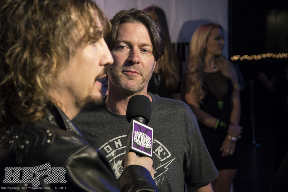 Roast on the Range 2014 Featuring Corey Taylor